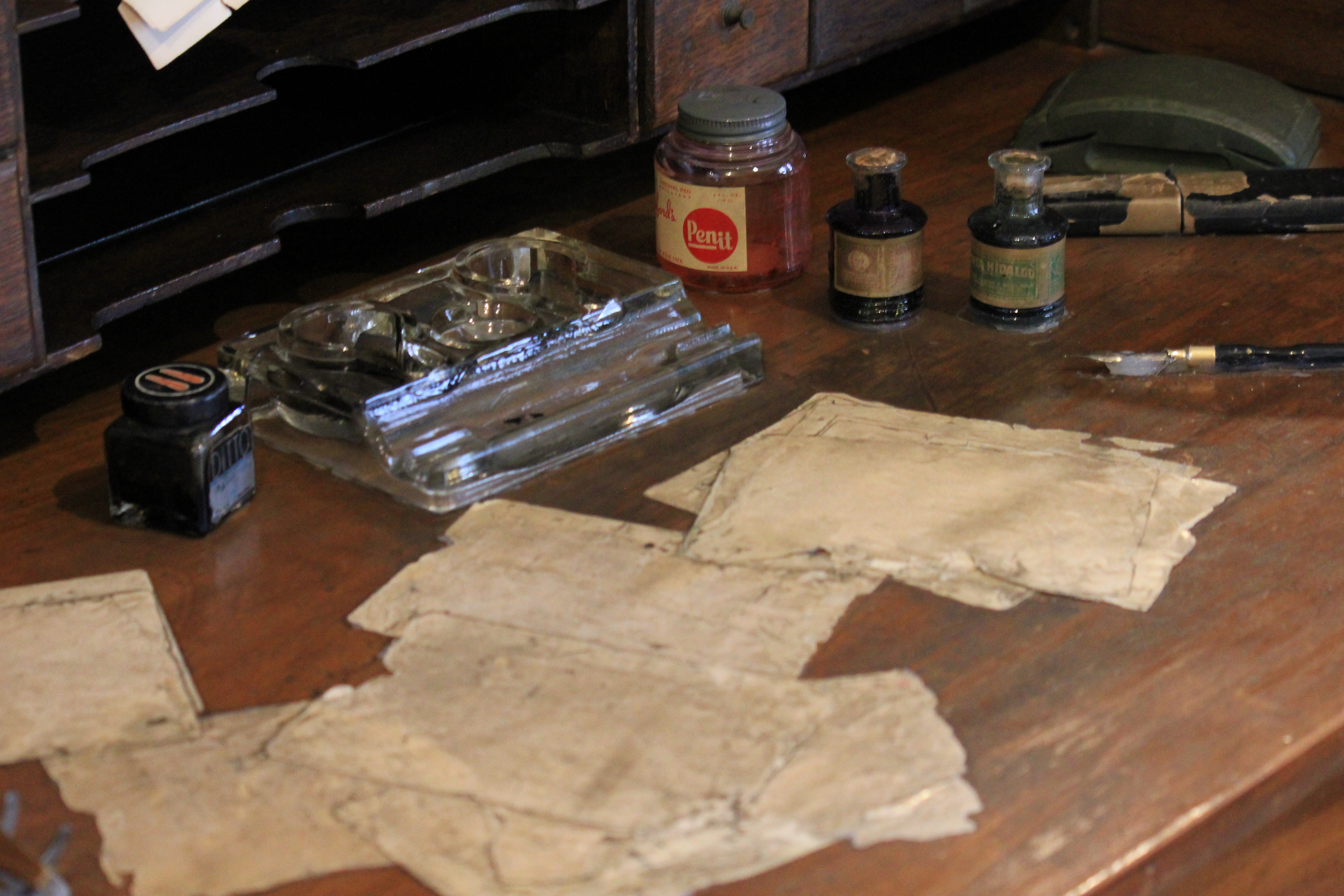 Ramón López Velarde´s letters located in The Museum "La Casa del Poeta Ramón López Velarde" in Colonia Roma, Mexico City